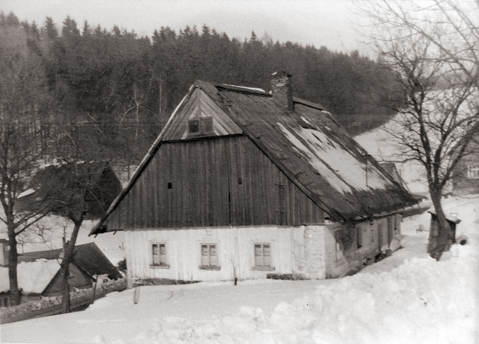 Czech village Suchý Důl in winter 1979/1980